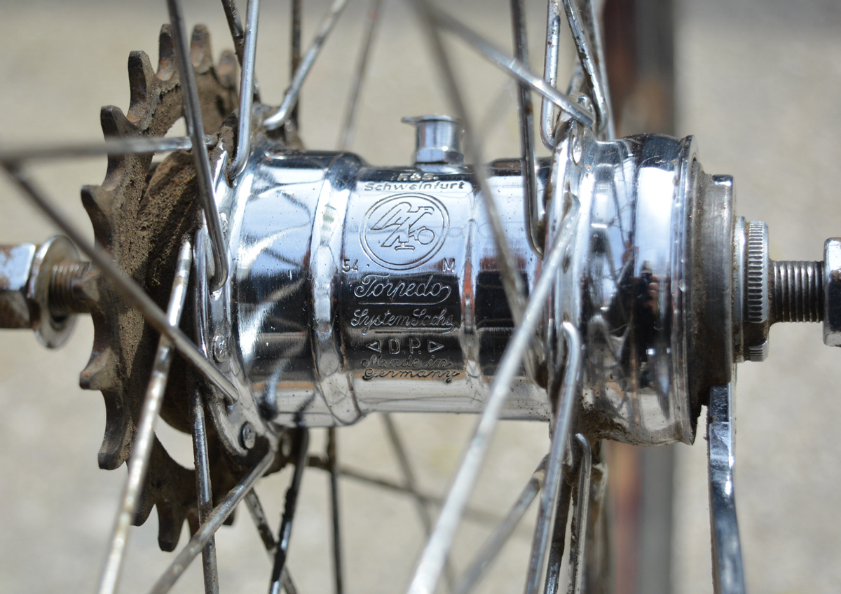 Original Fichtel & Sachs Torpedo back pedal brake 1954